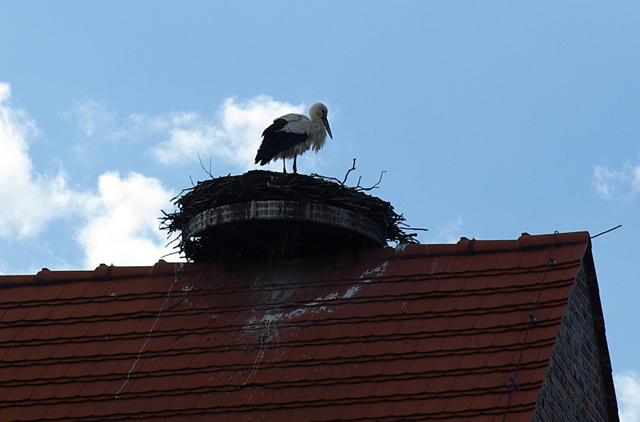 Stork in Dissen, Brandenburg, Germany